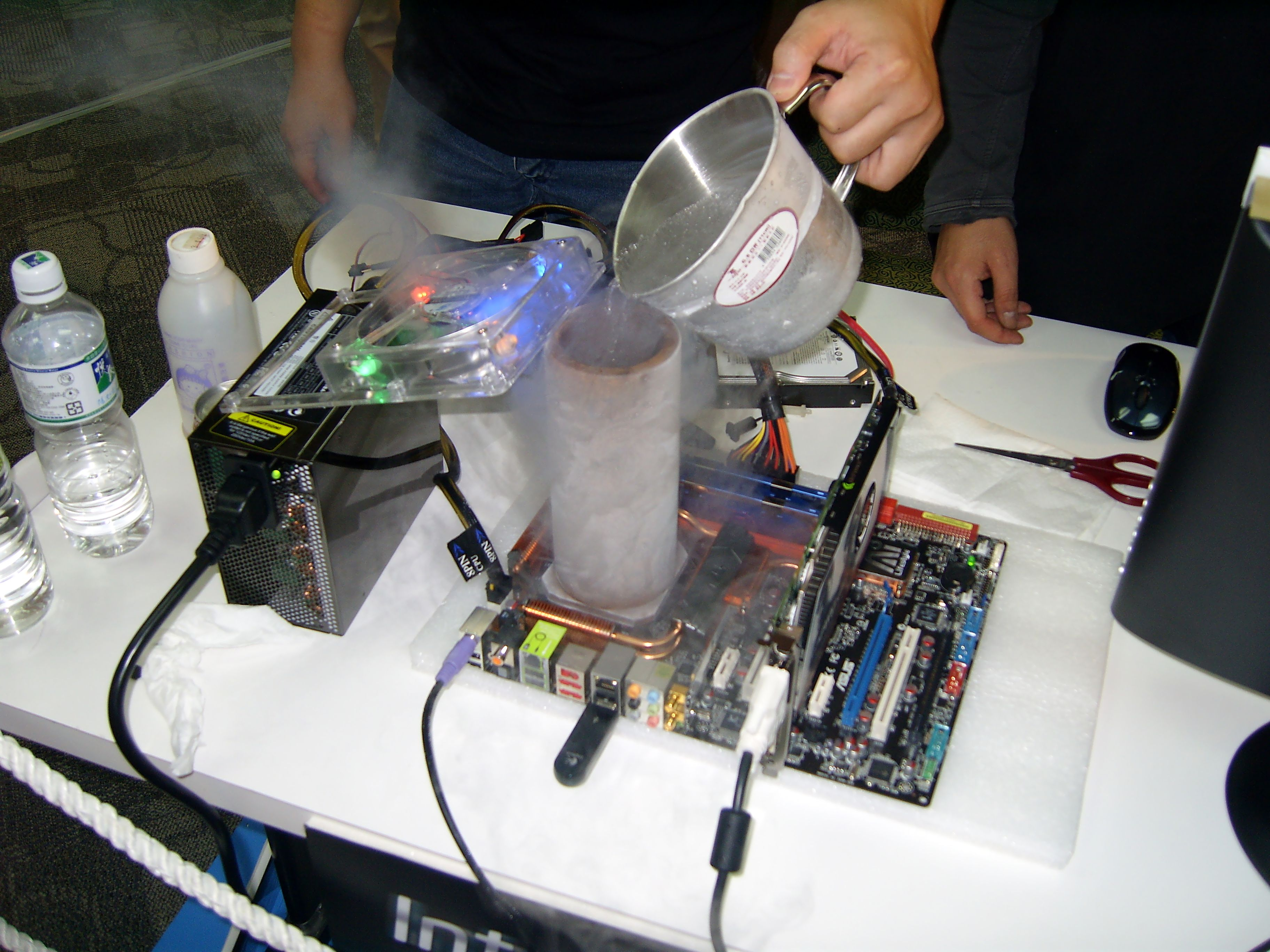 2007 Taipei IT Month: Intel Taiwan Overclocking Live Test Tournament.